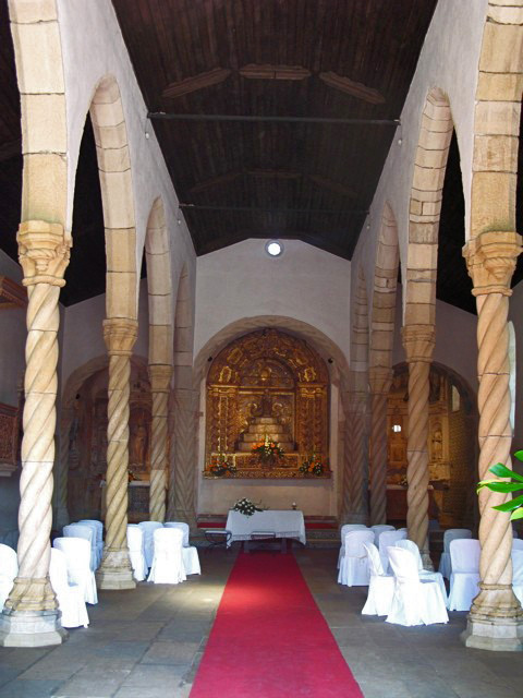 Manueline interior of the castle church in Montemor-o-Velho